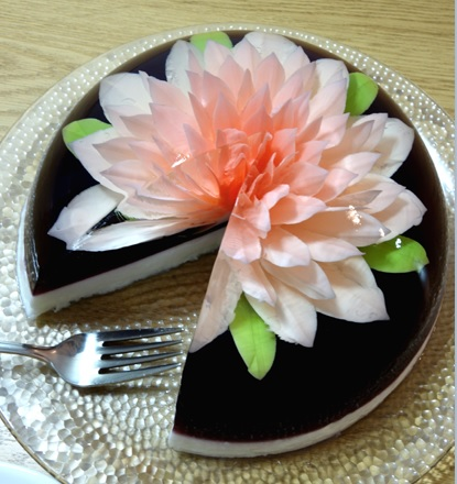 A gelatin art dessert made by injecting food coloring into fruit-flavored gelatin